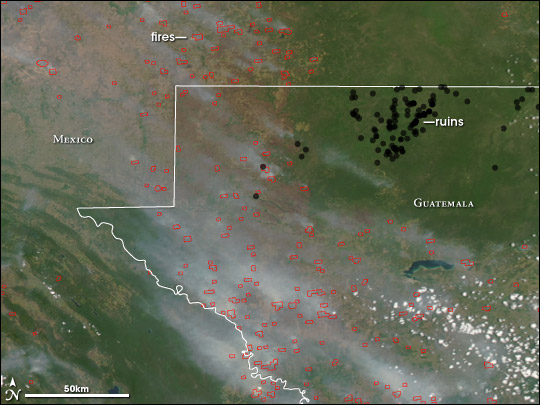 Fires and ruins in the Mirador basin.